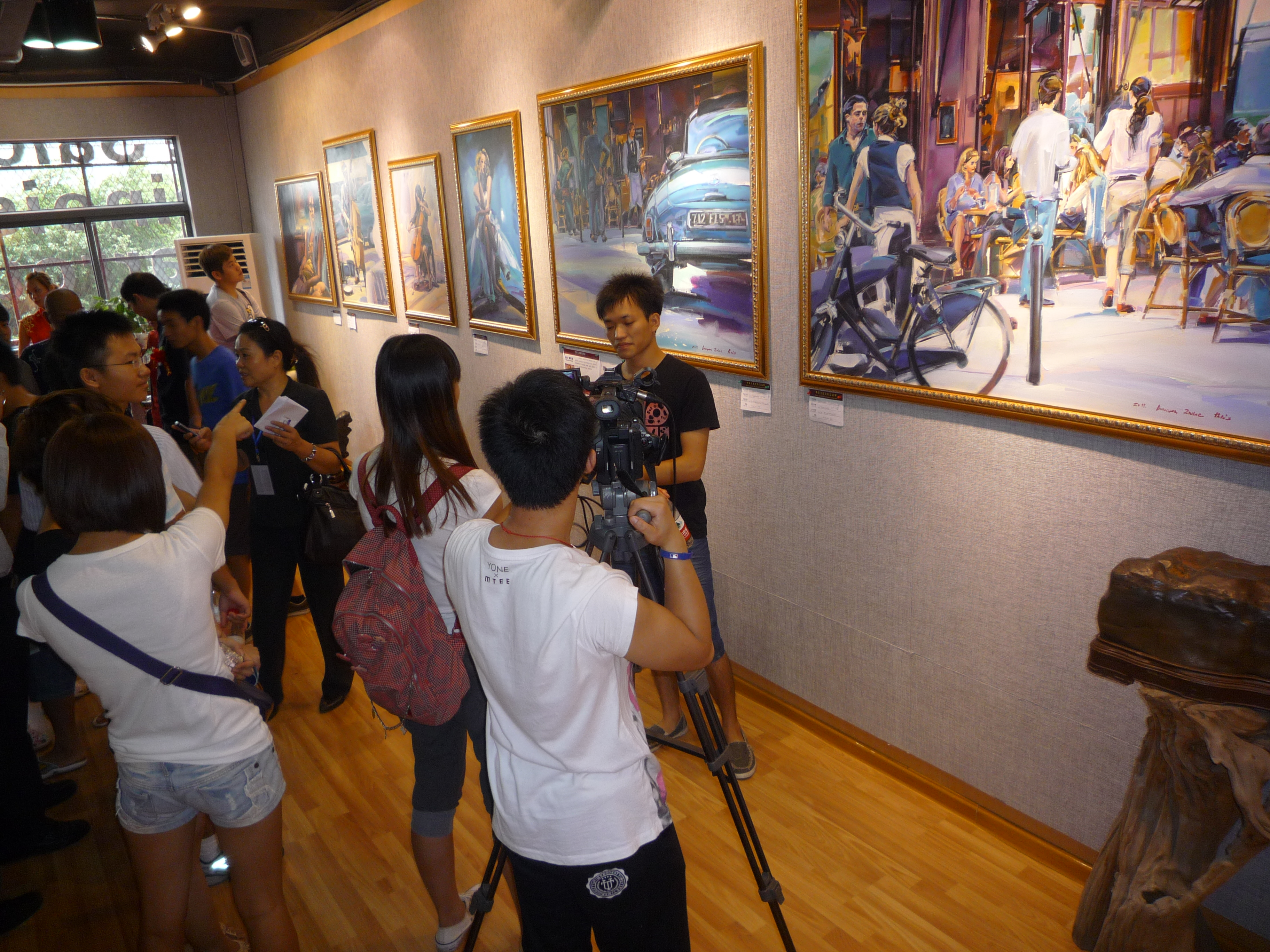 Izložba Dušana Zivlaka u Kini